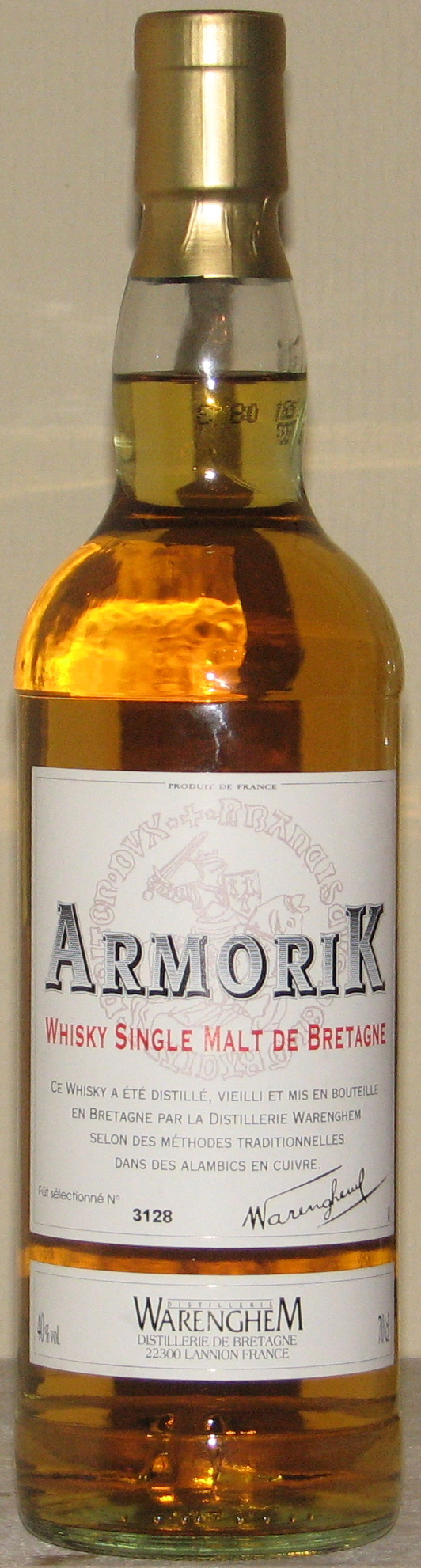 Armorik Whisky Single Malt de Bretagne France